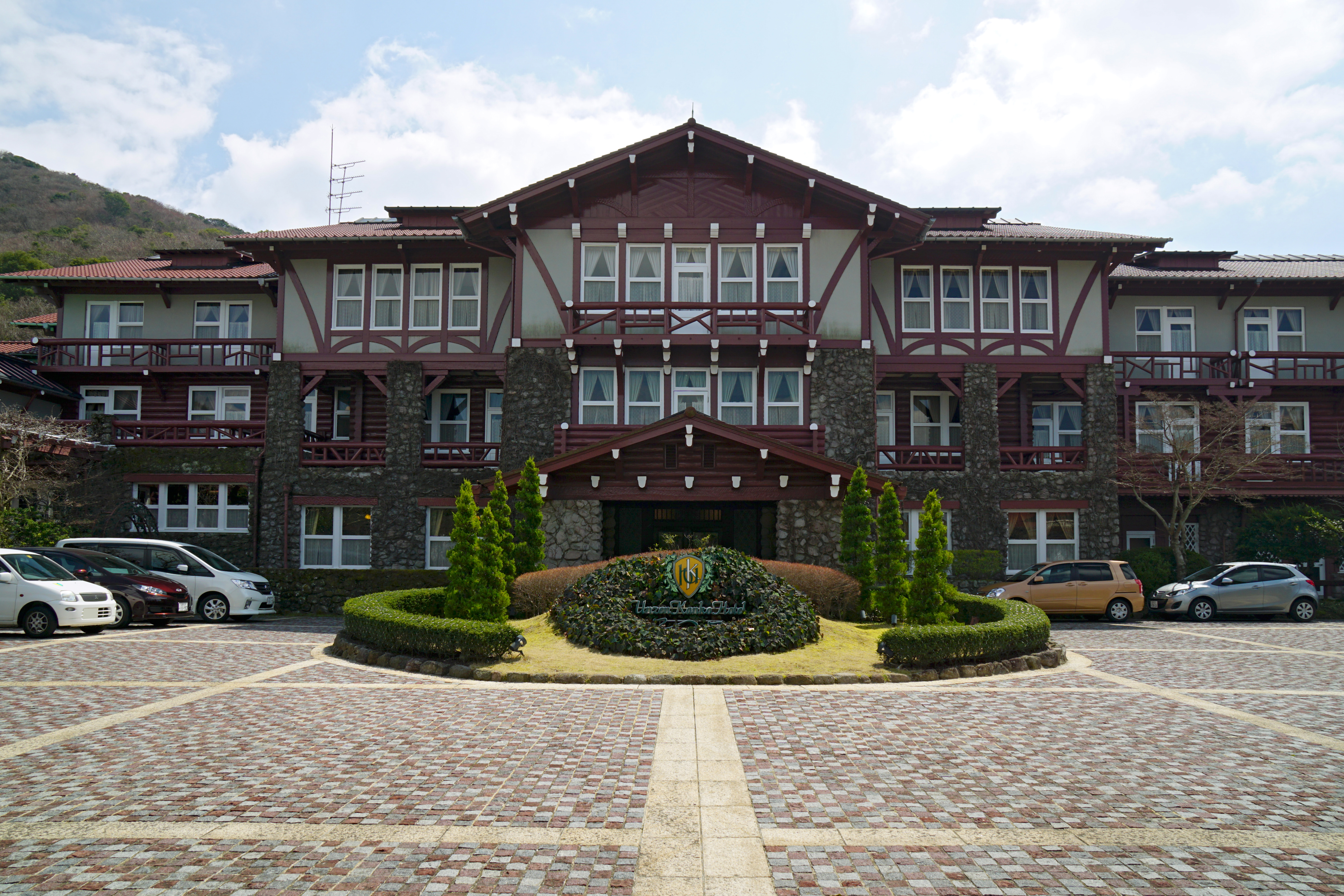 Unzen Kanko Hotel in Unzen City, Nagasaki prefecture, Japan.